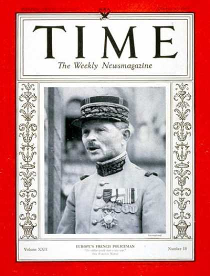 Maxime Weygand on the cover of TIME magazine, 10/30/33